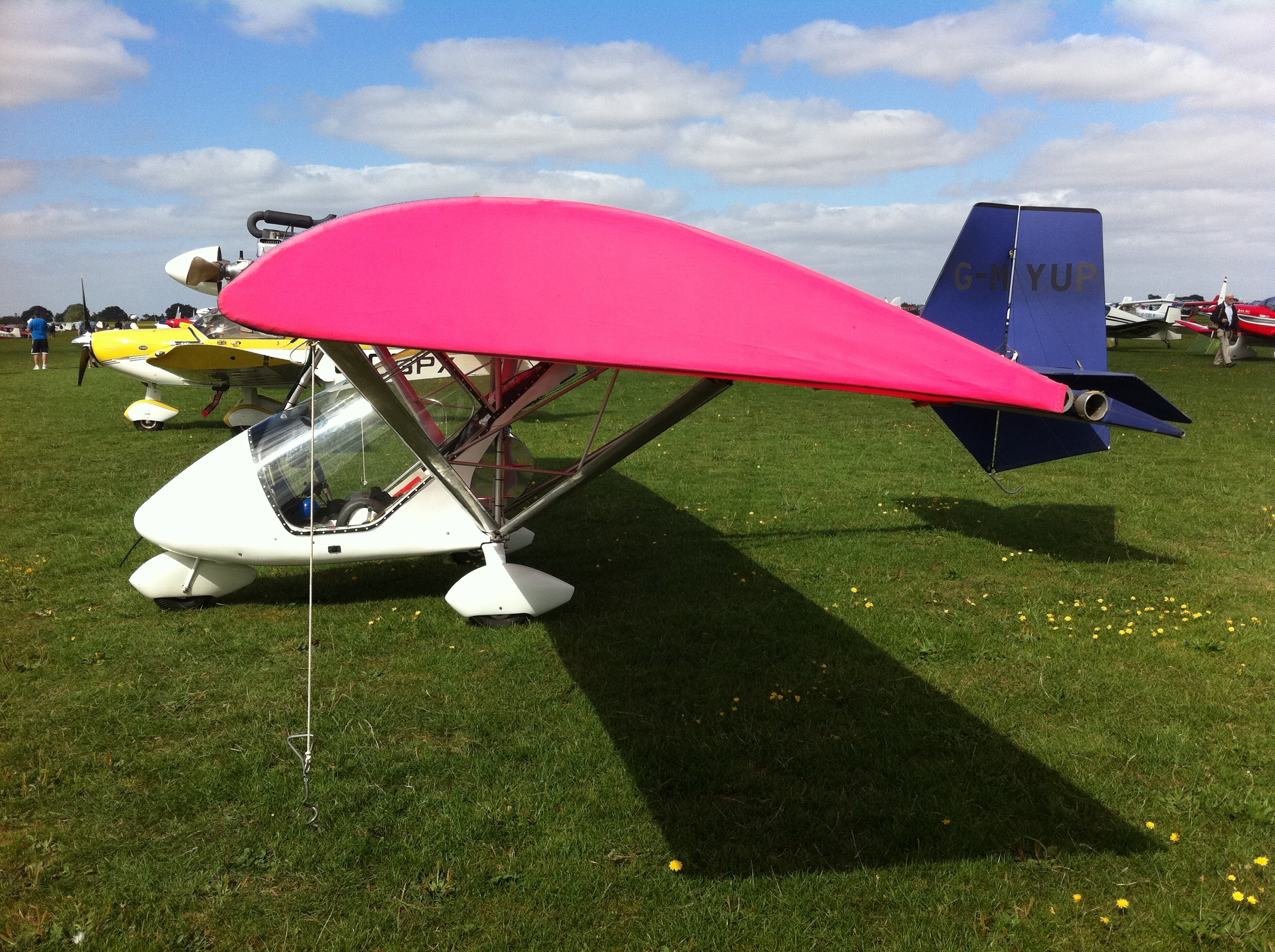 At Sywell Airfield